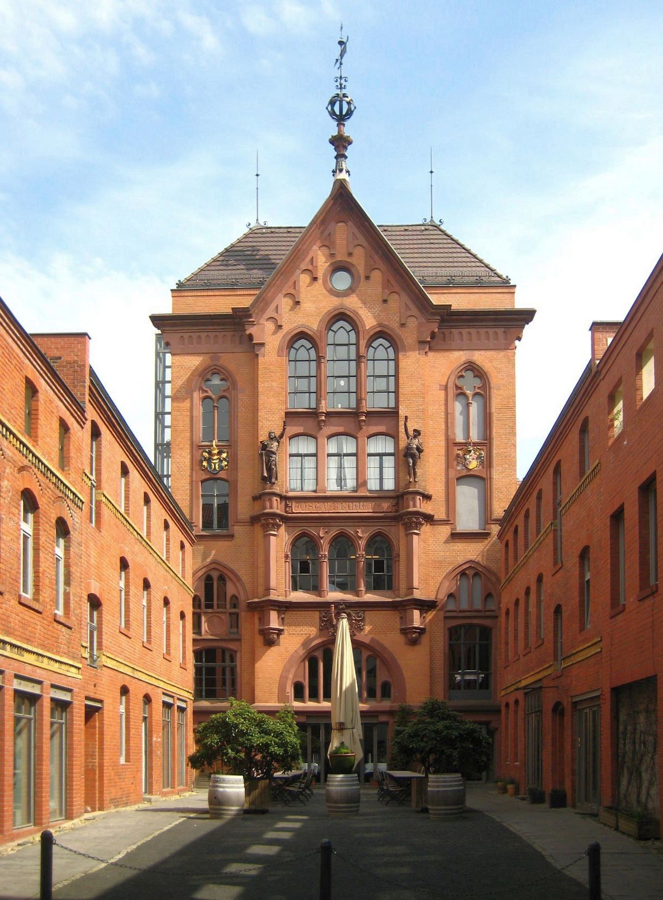 The former Josty Brewery (or Berg Brewery) in the court of a residential building at Bergstraße No. 22 in Berlin-Mitte, now holiday apartments and the Restaurant Katz Orange. The brewery was built from 1890 to 1891 to a design by the architects Enders & Hahn. The two industrial buildings (left and right) were built earlier (around 1860 and in 1880). The complex, also encompassing the front building (1878), has been designated as a historic landmark. The last restoration was realized by the architecture office Elwardt & Lattermann Architekten